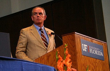 Bernie Machen - photo cropped, at the University of Florida